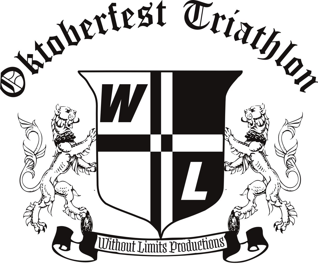 Without Limits Coat of Arms